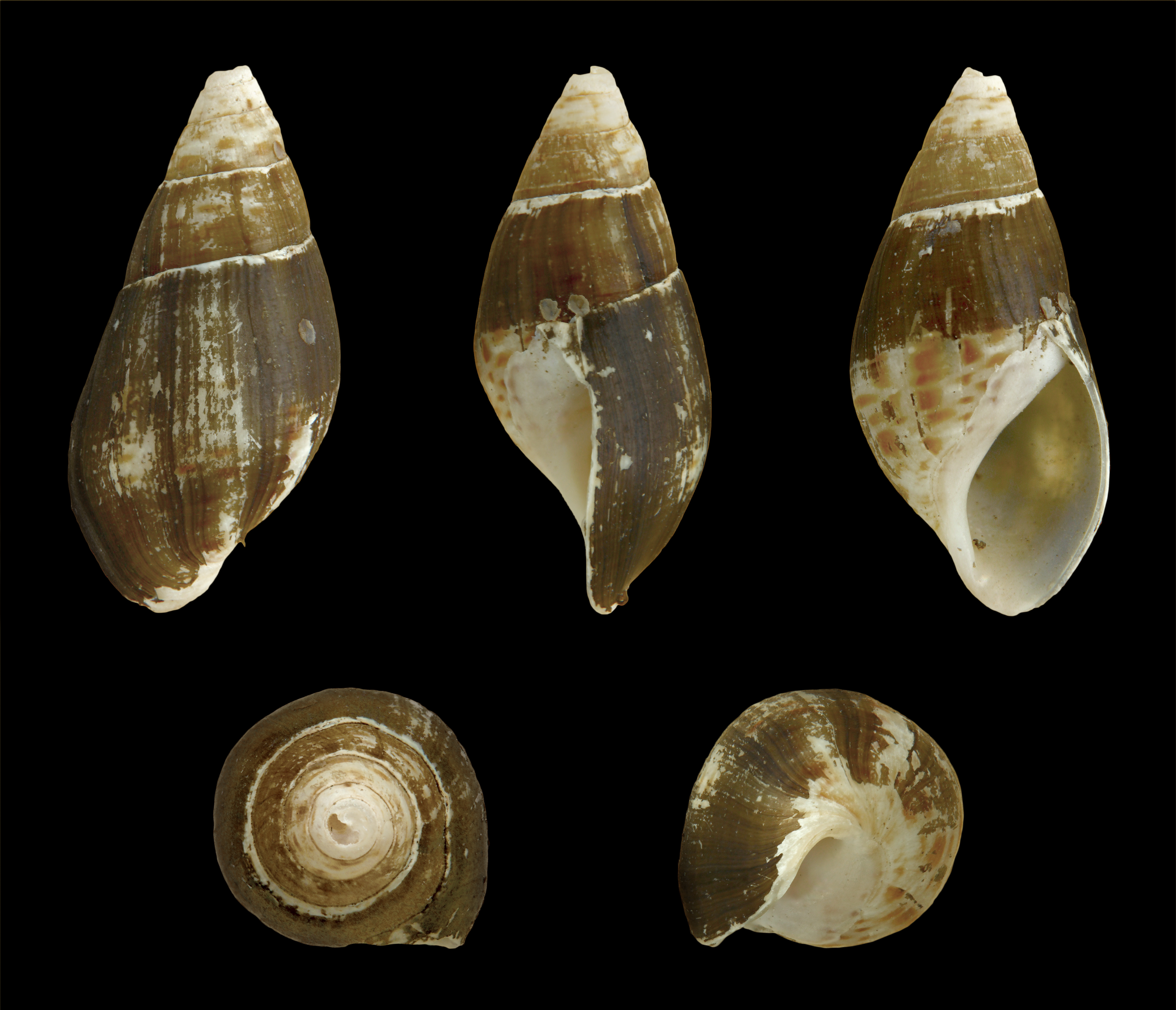 Length 1.5 cm; Originating from Lake Yalpuh, west of Izmajil, Ukraine; Shell of own collection, therefore not geocoded. Dorsal, lateral (right side), ventral, back, and front view.